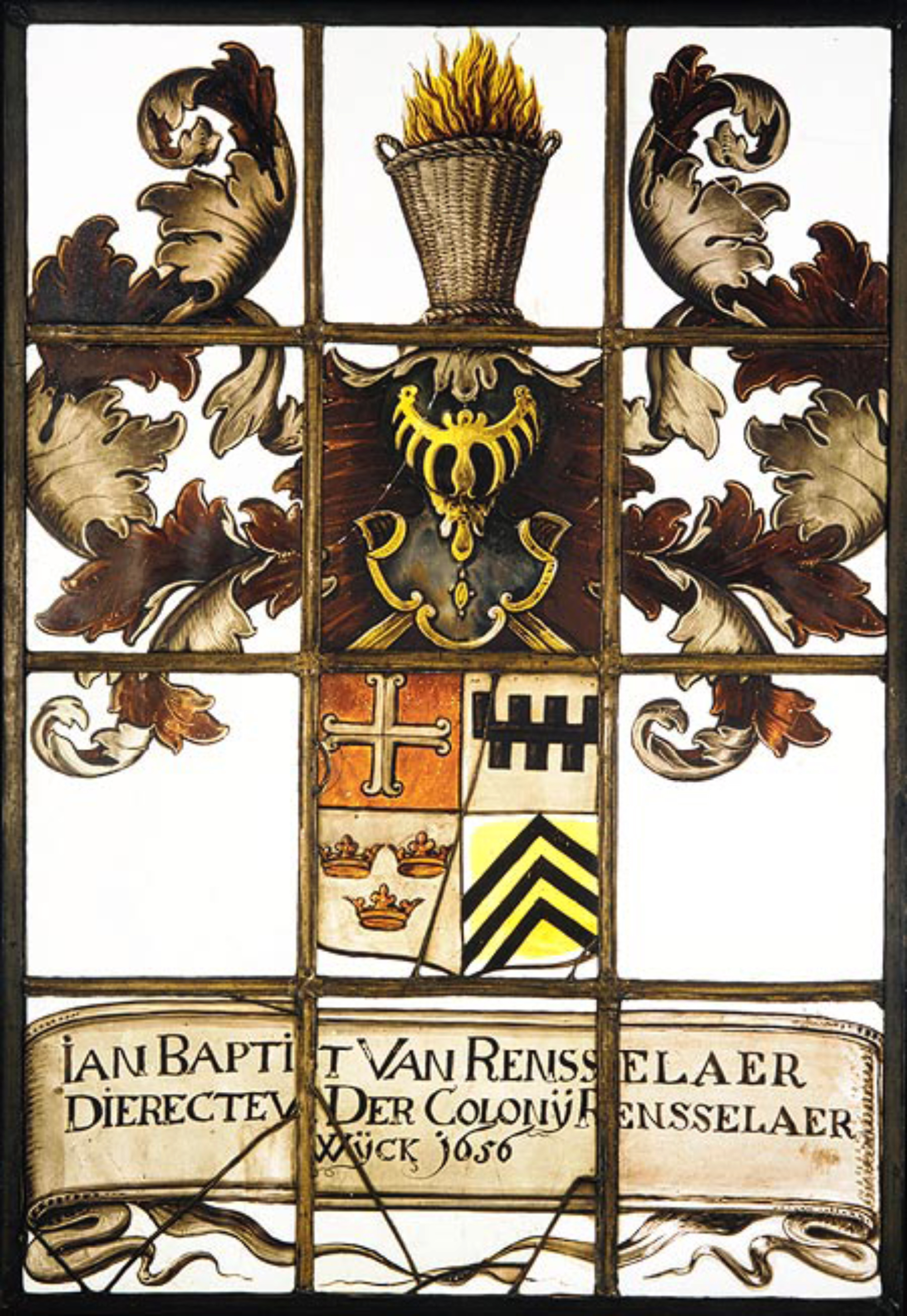 From the Metropolital Museum of Art's website: "This window decorated with the van Rensselaer family coat of arms is one of the earliest and most precious pieces of American stained glass. It was given to the Old Dutch Church in Beverwyck, New York, by Jan Baptist van Rensselaer in 1656. At that time, Jan Baptist was the patroon of Rensselaerwyck. After the church was demolished in 1805, the window was installed at the head of the staircase in the Van Rensselaer Manor House, which itself was demolished in 1893."